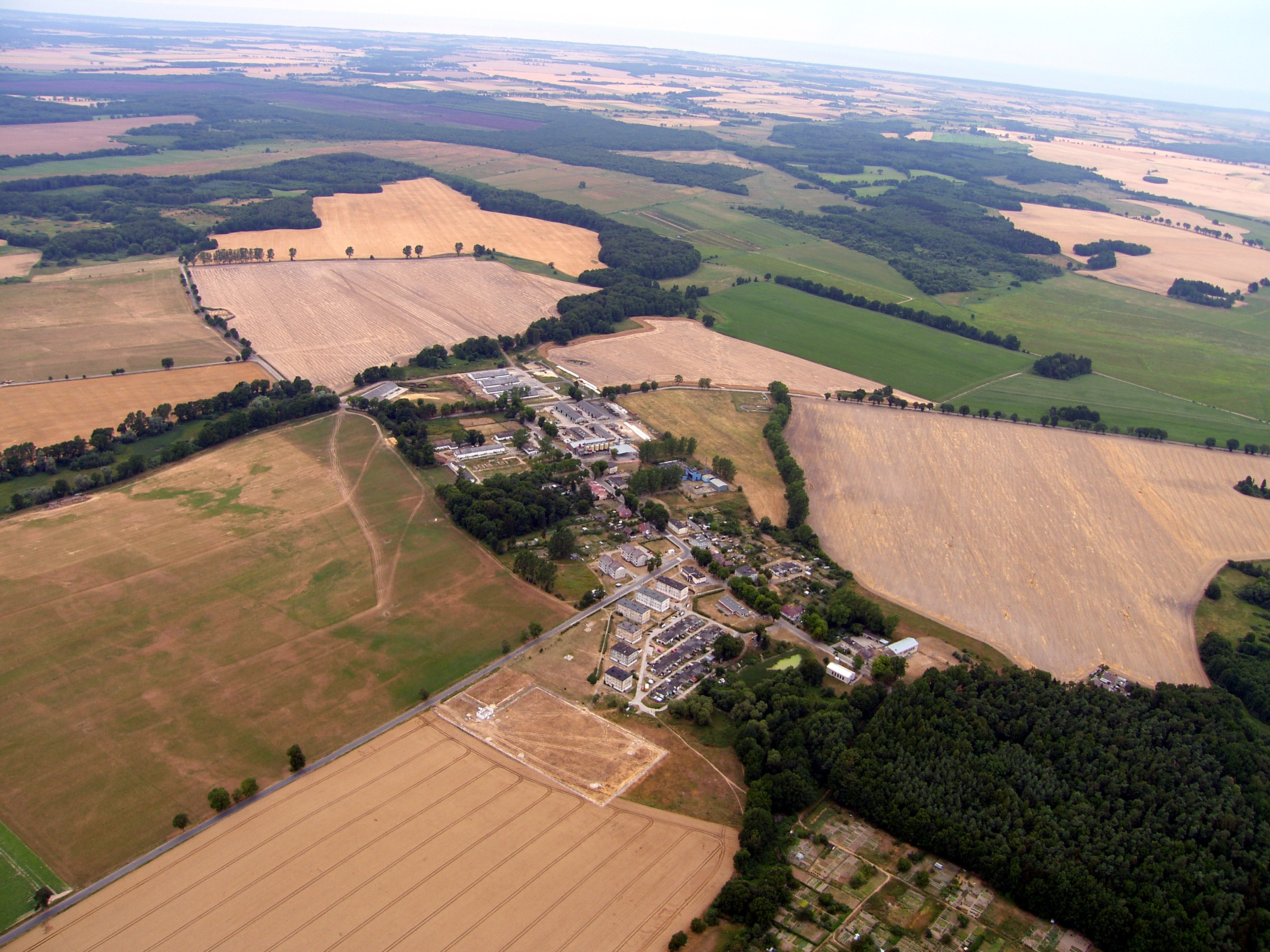 Bird's-eye view on Prusinowo (powiat gryficki) (Poland)